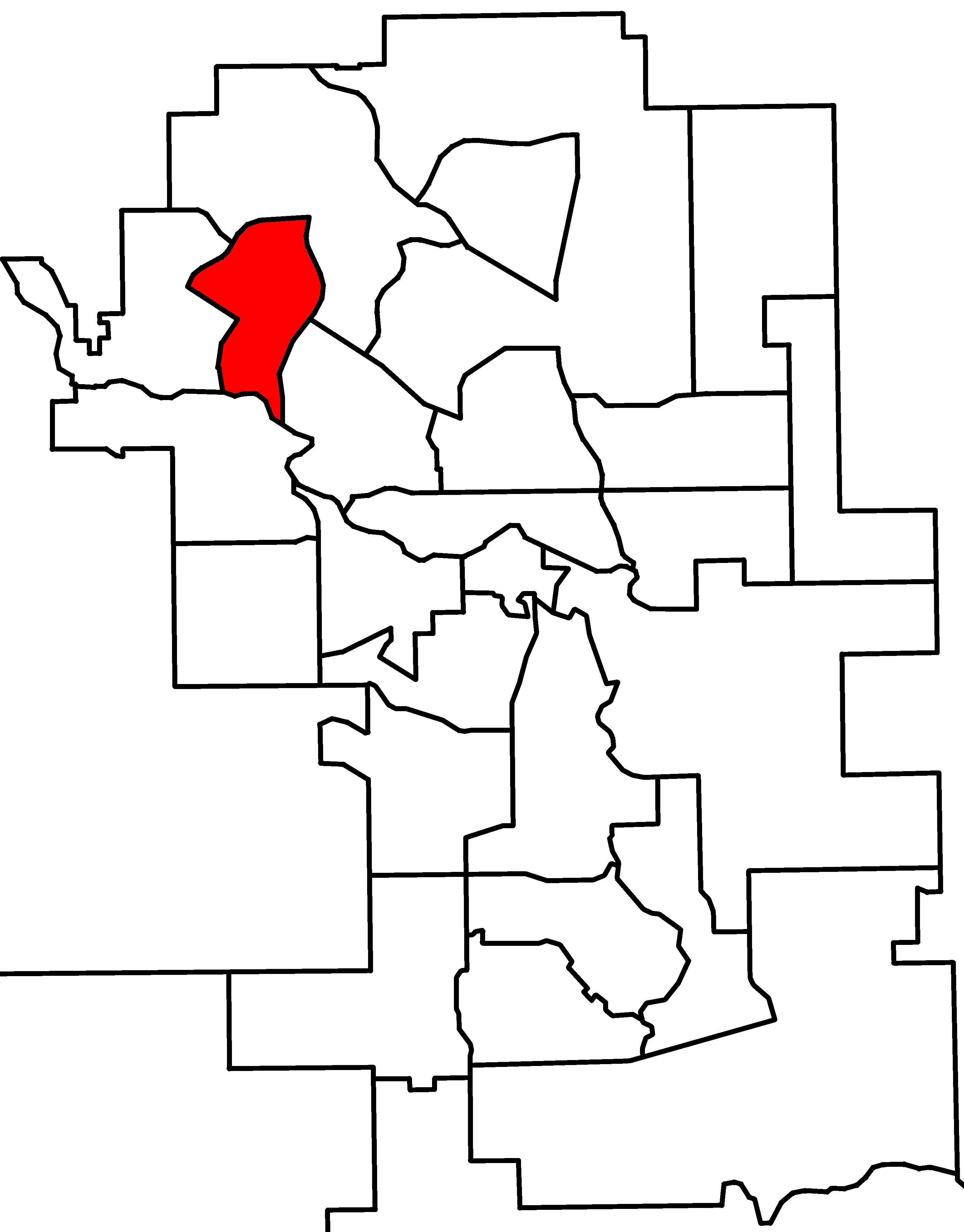 A map of Alberta provincial electoral districts, effective 2010, in the Calgary area. Calgary-Hawkwood is highlighted in red.